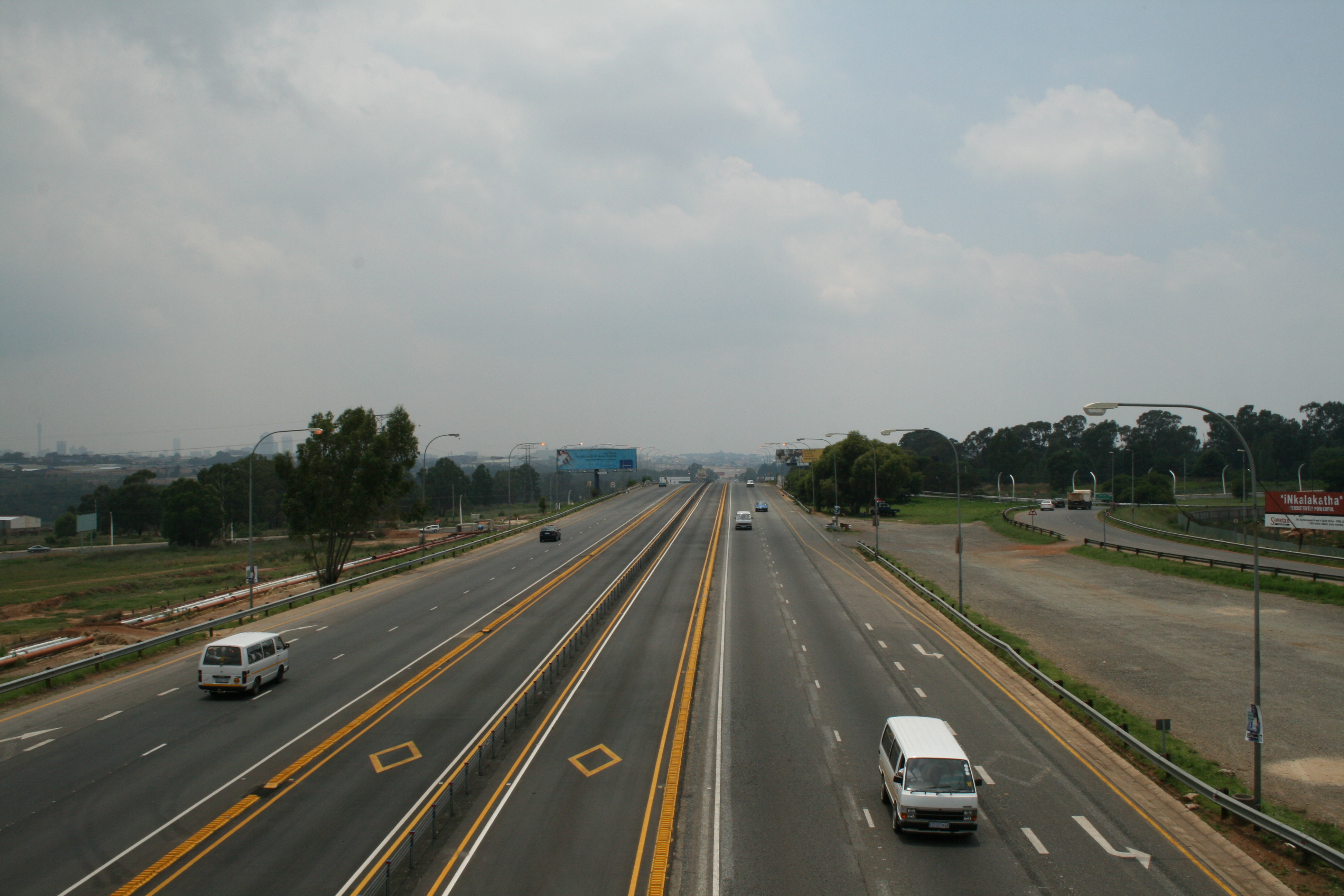 The M70 (Soweto Highway) next to Soccer City in Nasrec, Johannesburg, Gauteng, South Africa